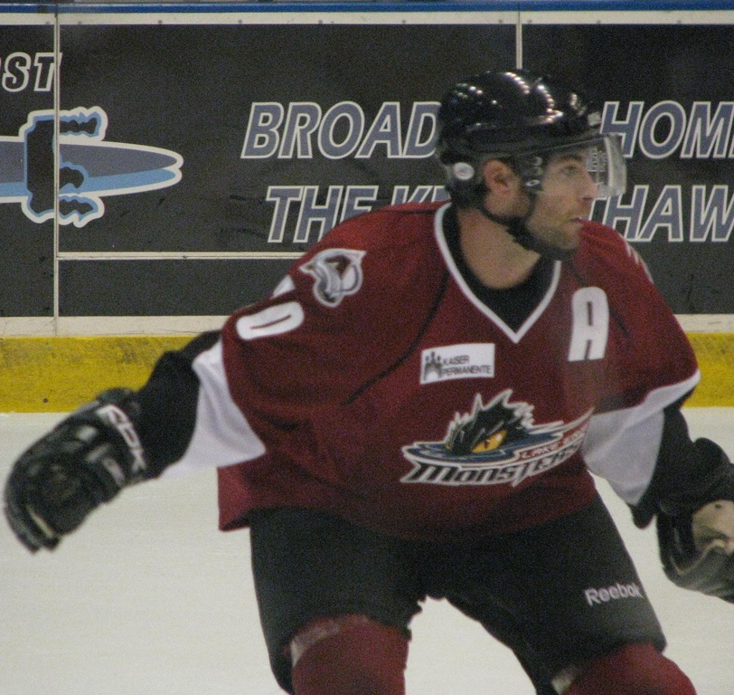 Darren Haydar - Rochester Americans vs Lake Erie Monsters on October 3, 2009 at Blue Cross Arena.